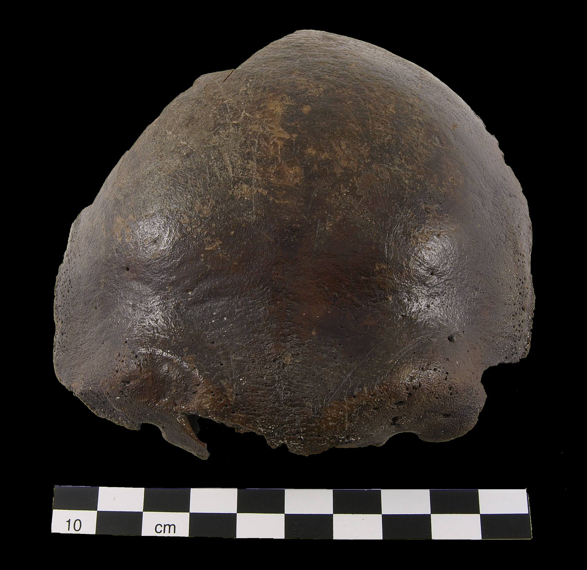 Frontal bone of a human (Homo sapiens)